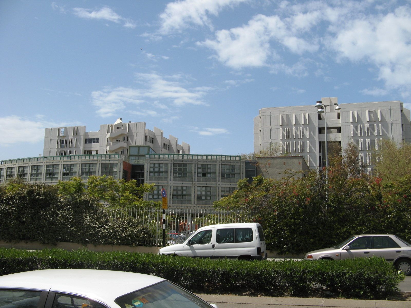 הפקולטה למדעי החיים